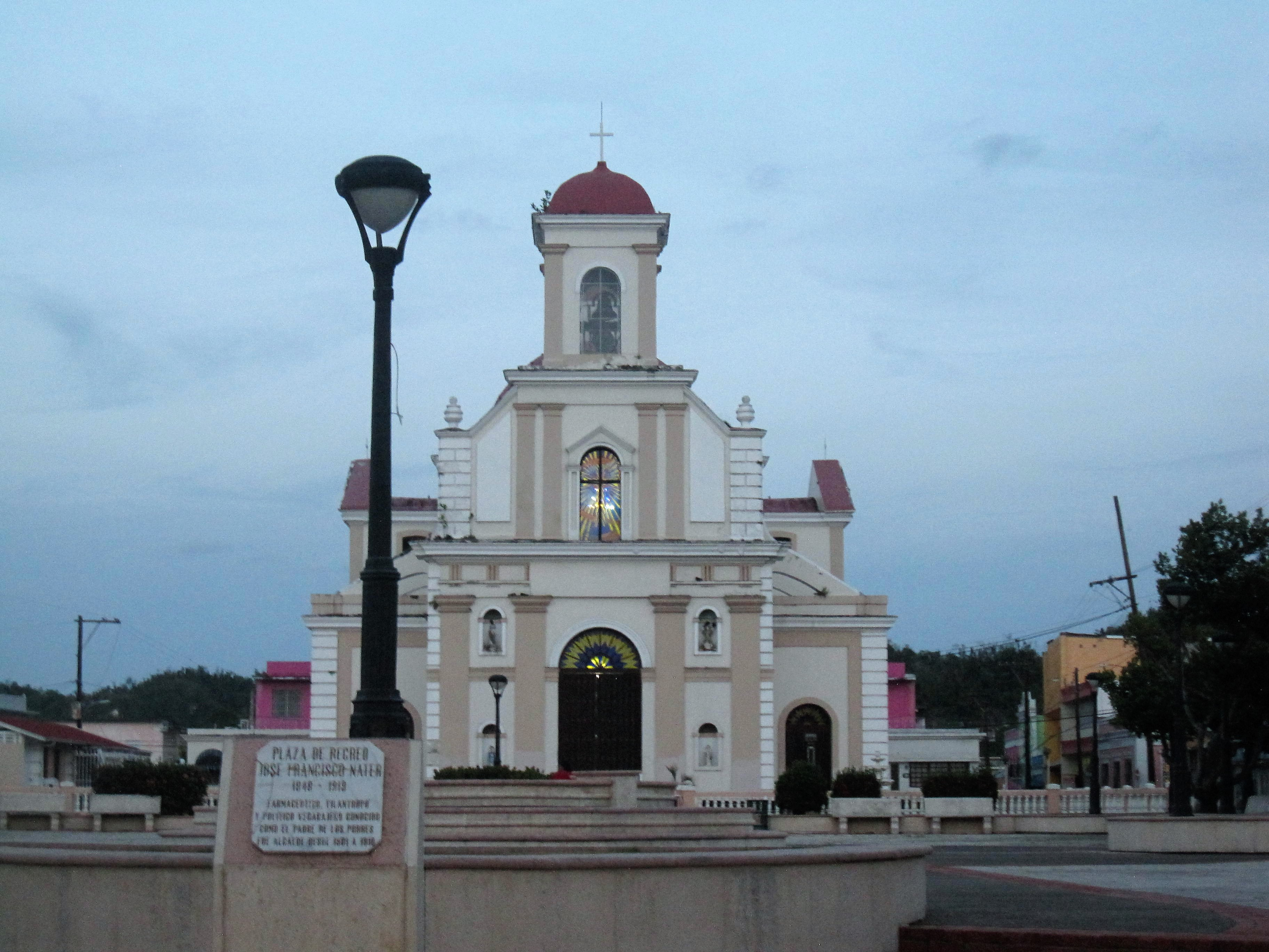 Church Santa María del Rosario of Vega Baja